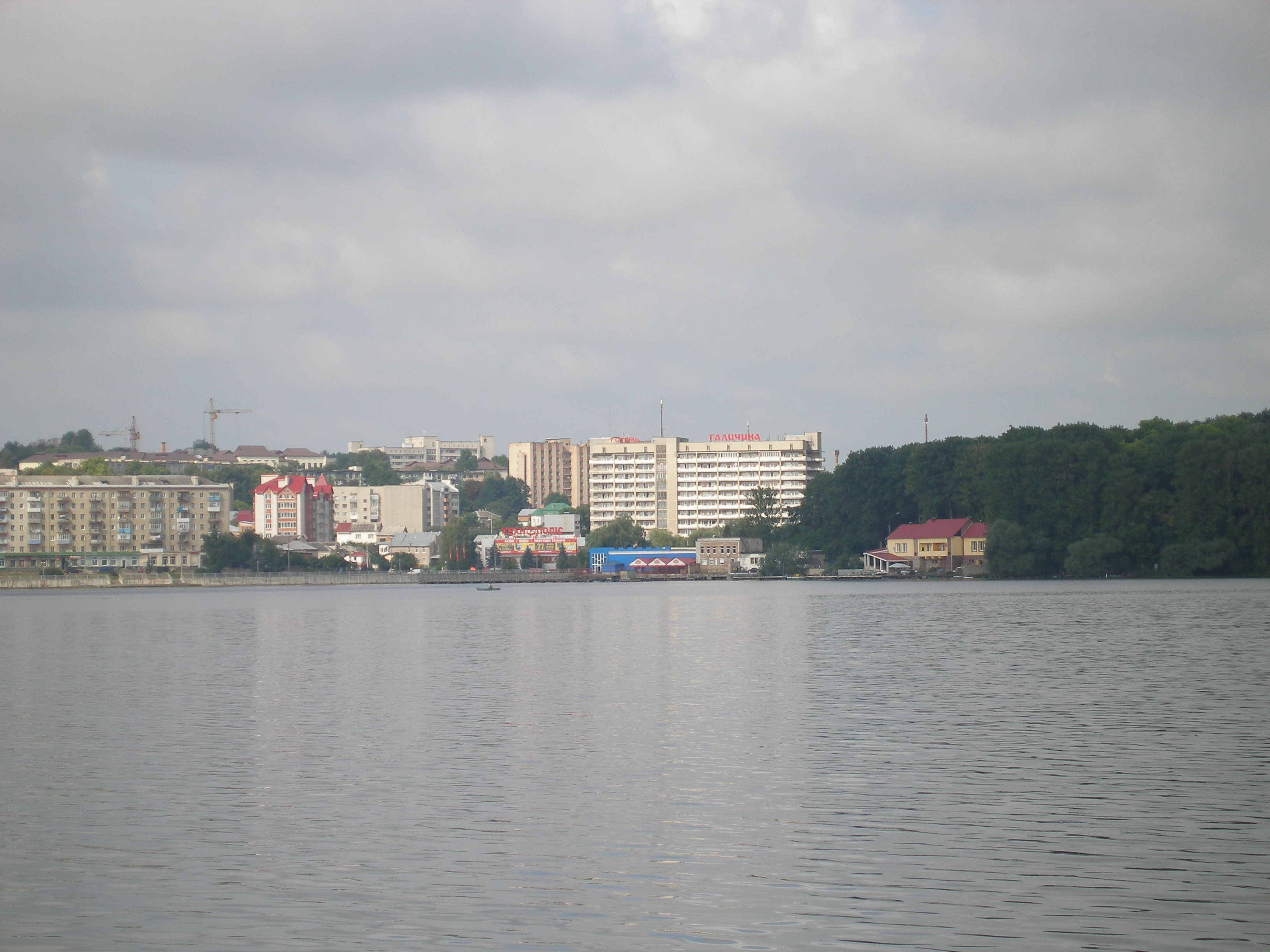 Ternopil Lake